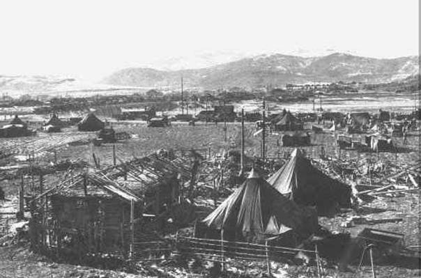 A Direct Air Control Center at Hagaru-ri during the Battle of Chosin Reservoir